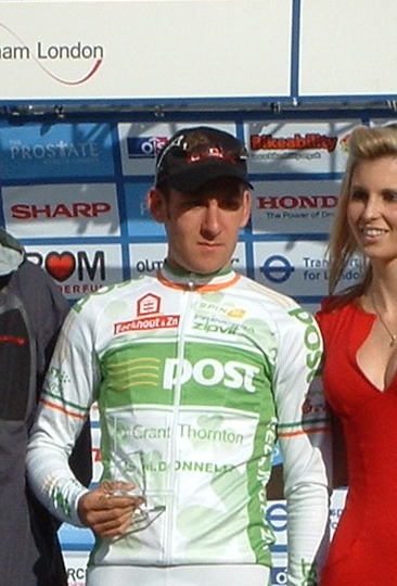 Cyclist Matt Brammeier in his Irish National Road Race Champion's jersey receives the combativity award for the final stage of the 2010 Tour of Britain held in Newham, London.